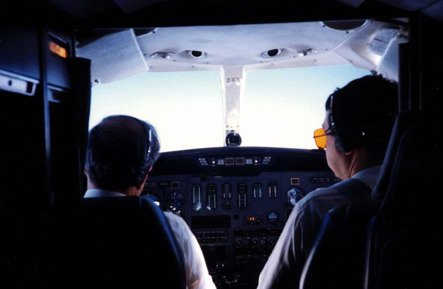 Cessna S550 Citation II flight deck during flight